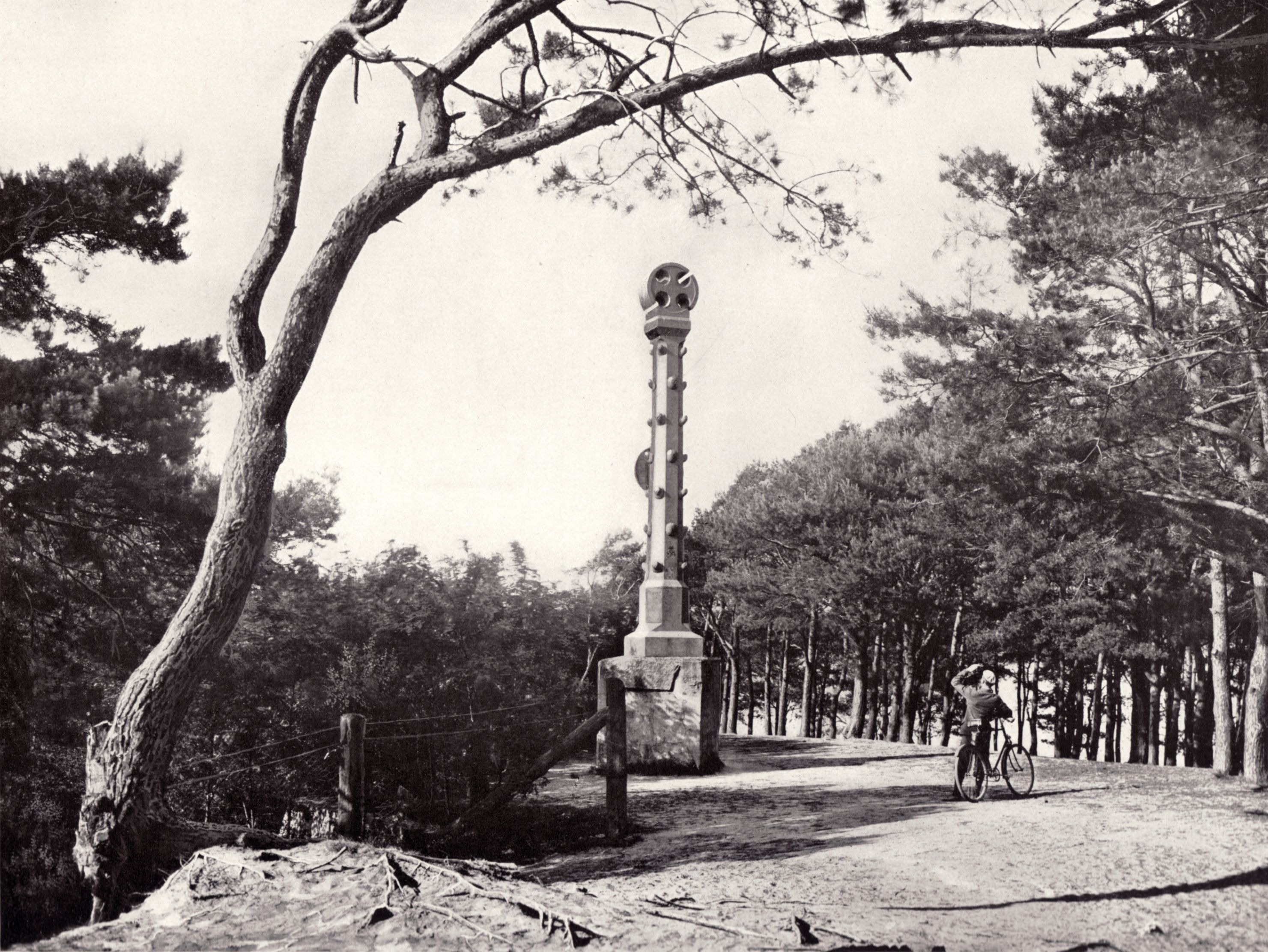 Berlin-Grunewald, Schildhorndenkmal around 1904